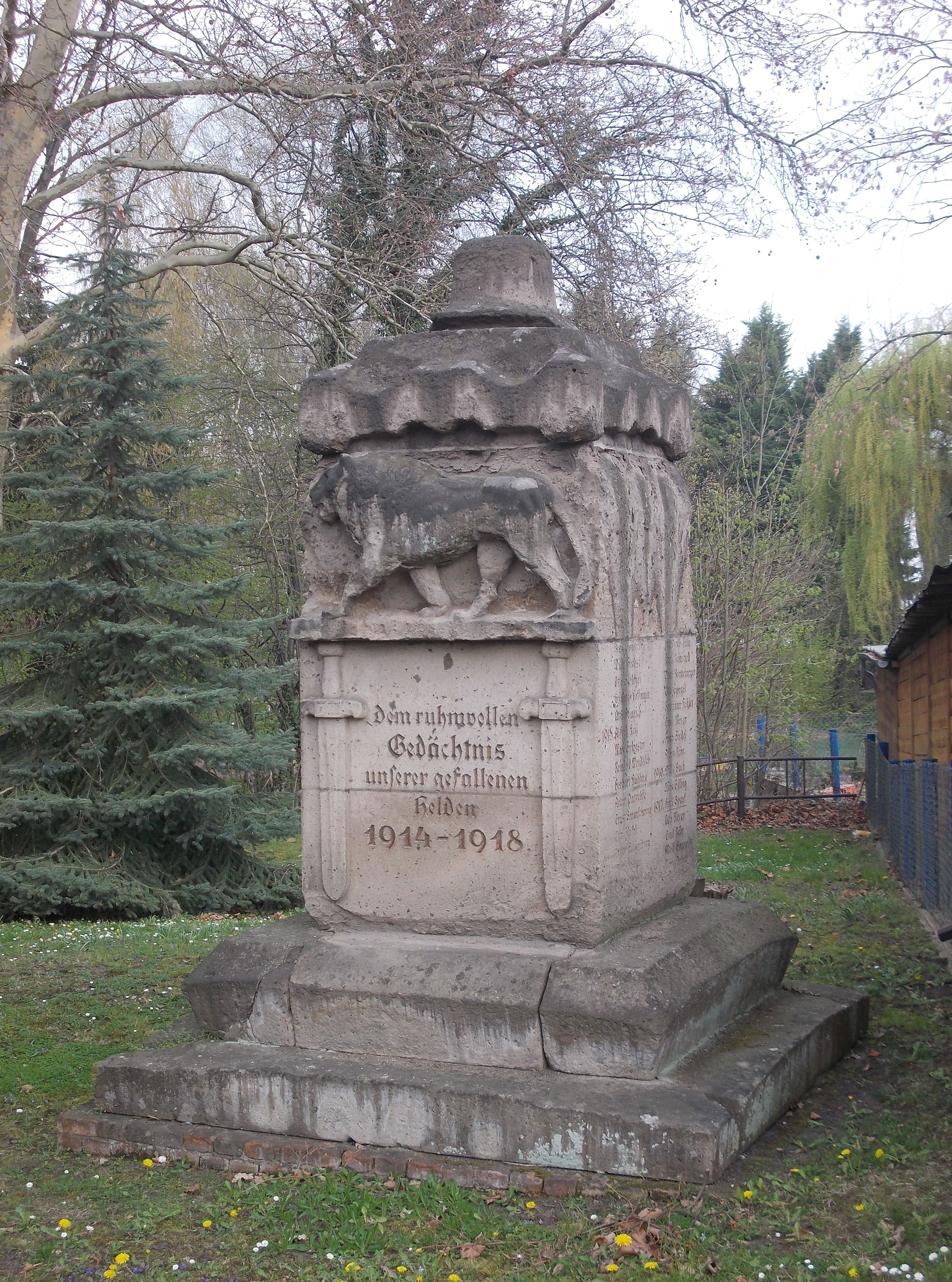 World War I memorial in Granschütz (Hohenmölsen, district: Burgenlandkreis, Saxony-Anhalt)